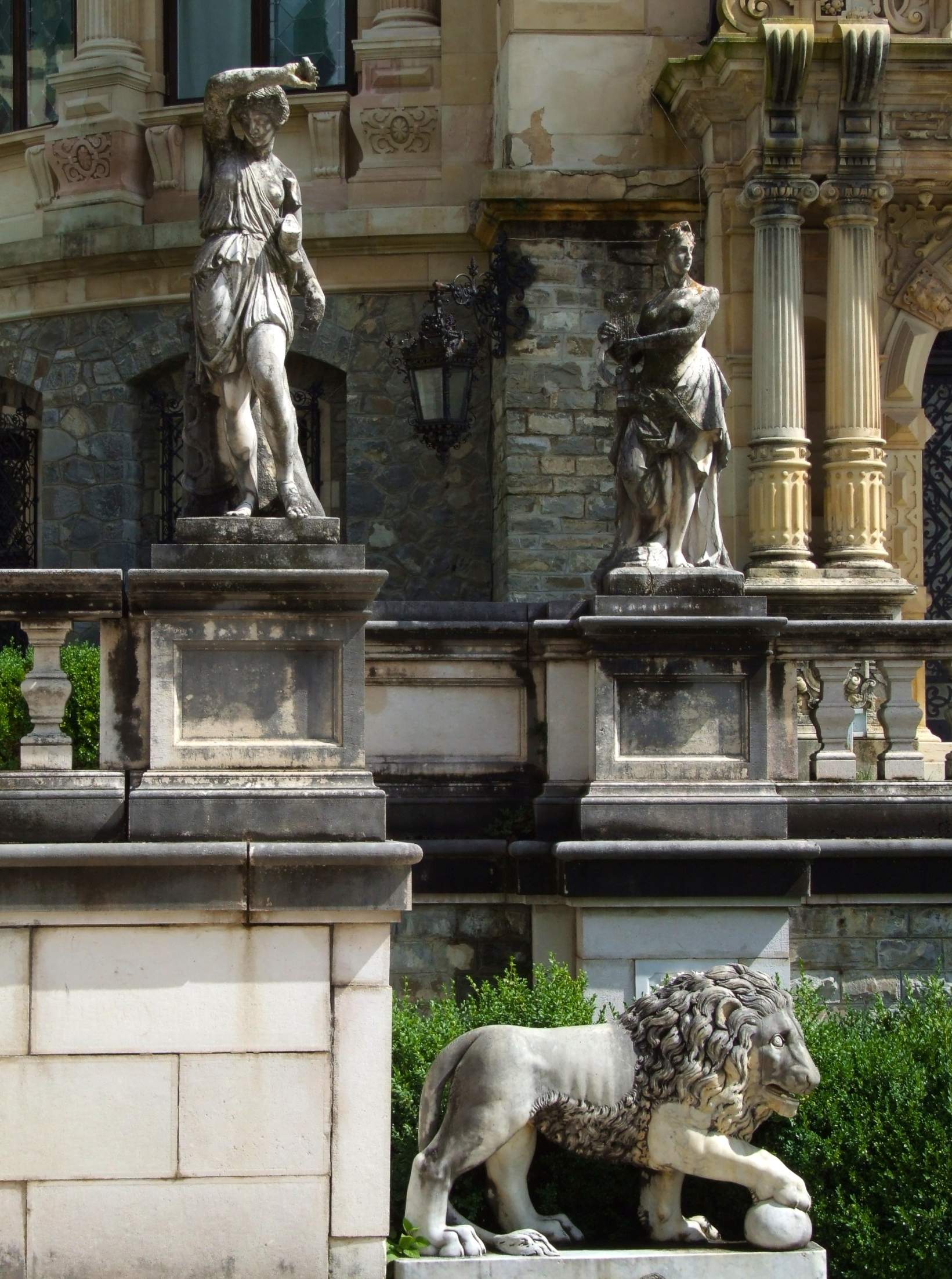 Castle Peleş - gardens 01